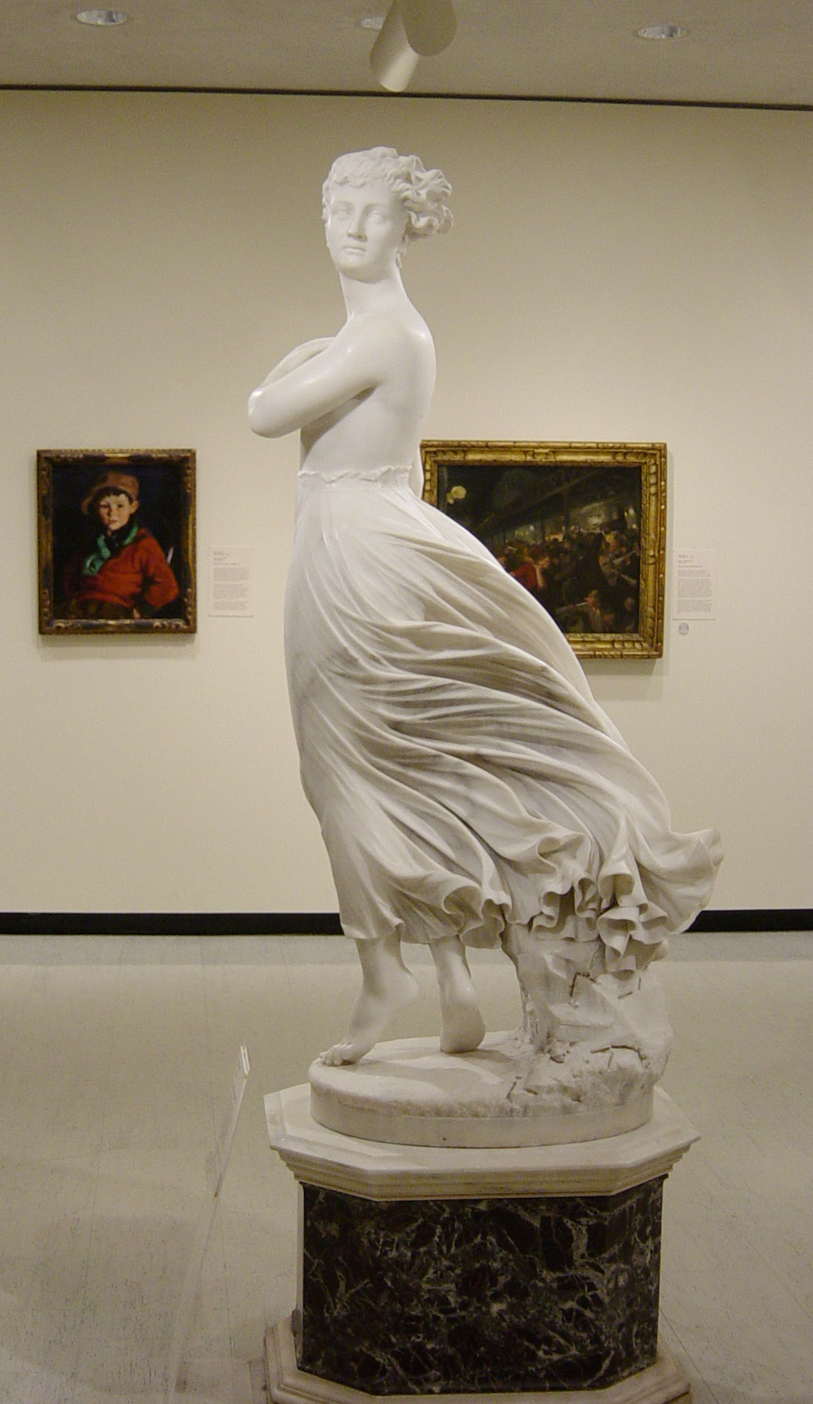 For detailed information see :Image:TheWestWindByGould.jpg Image made and uploaded by User:Leonard G.